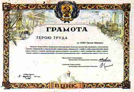 Hero of Soviet Labor certificate